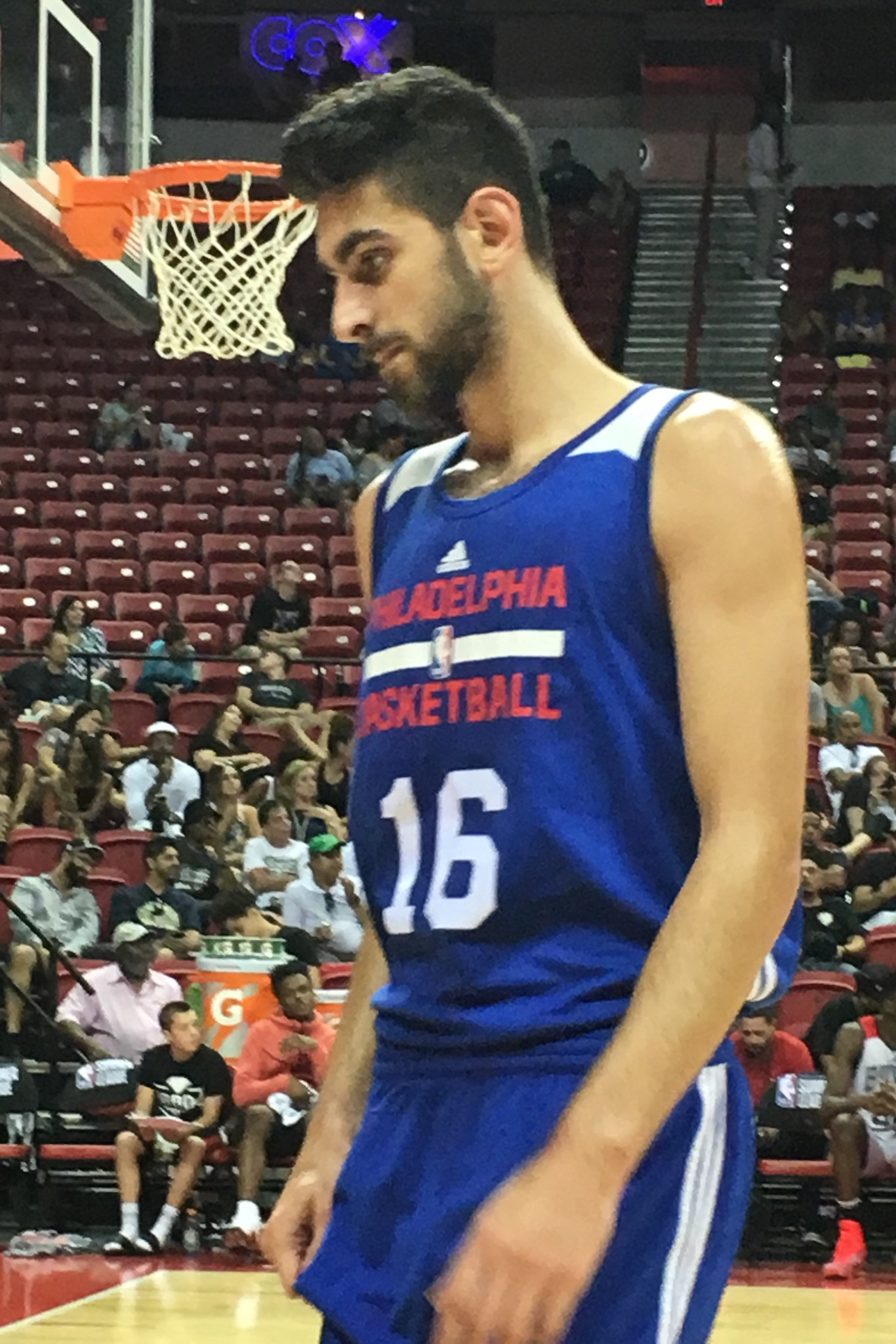 Furkan Korkmaz at 2017 Summer League